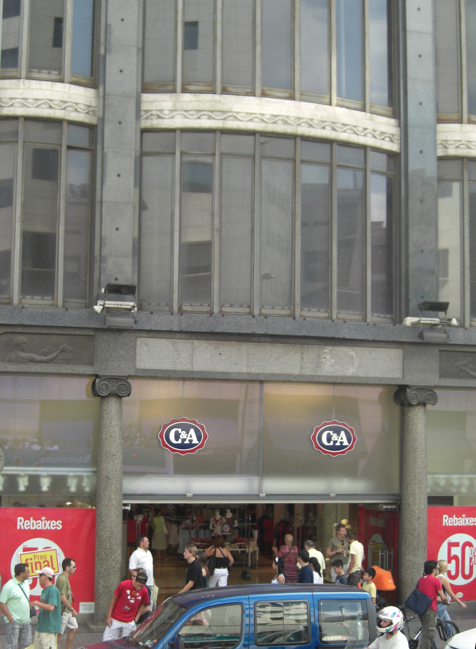 A C&A shop in Barcelona, Spain.